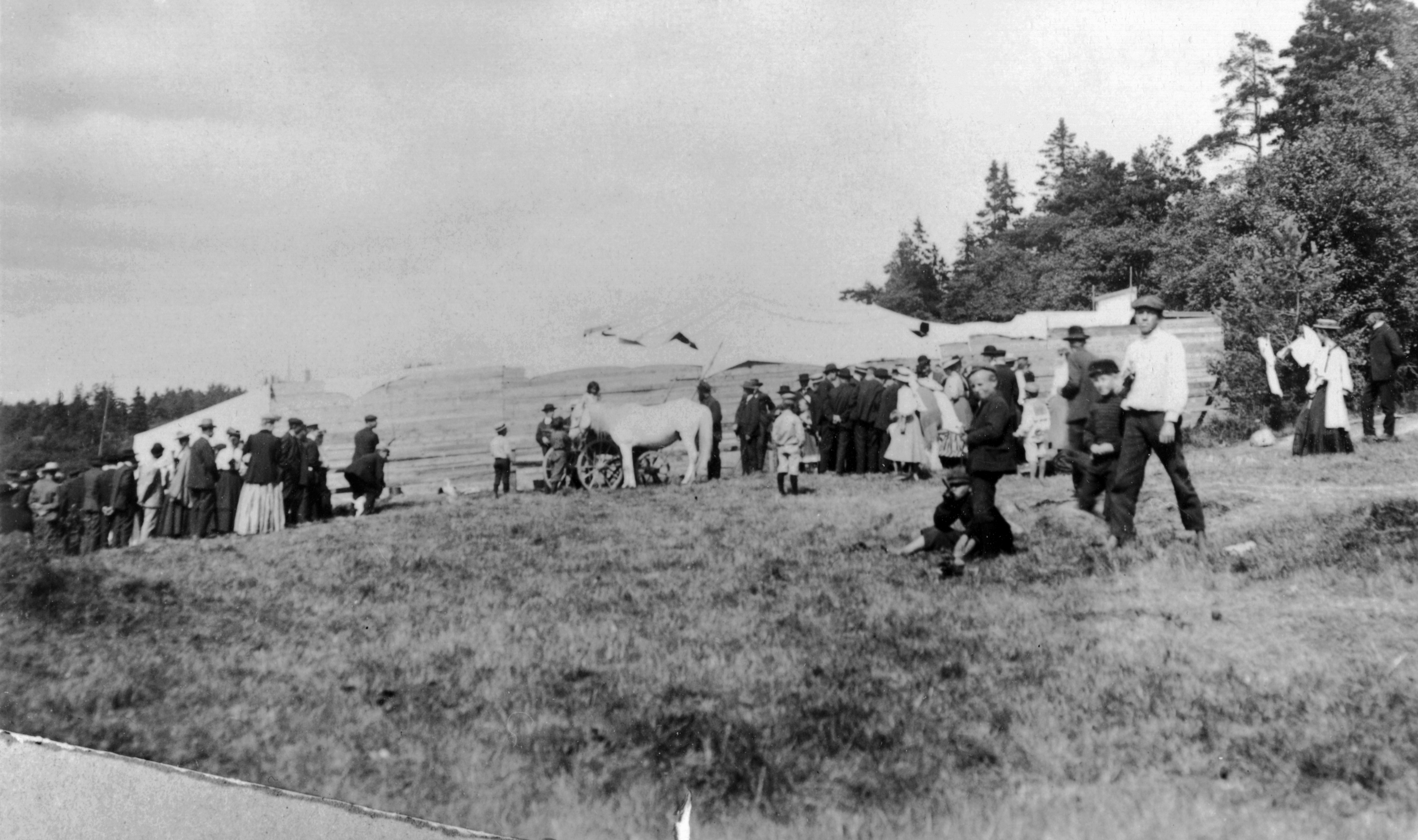 Camp of Hungarian gypsies in Pasila, Helsinki